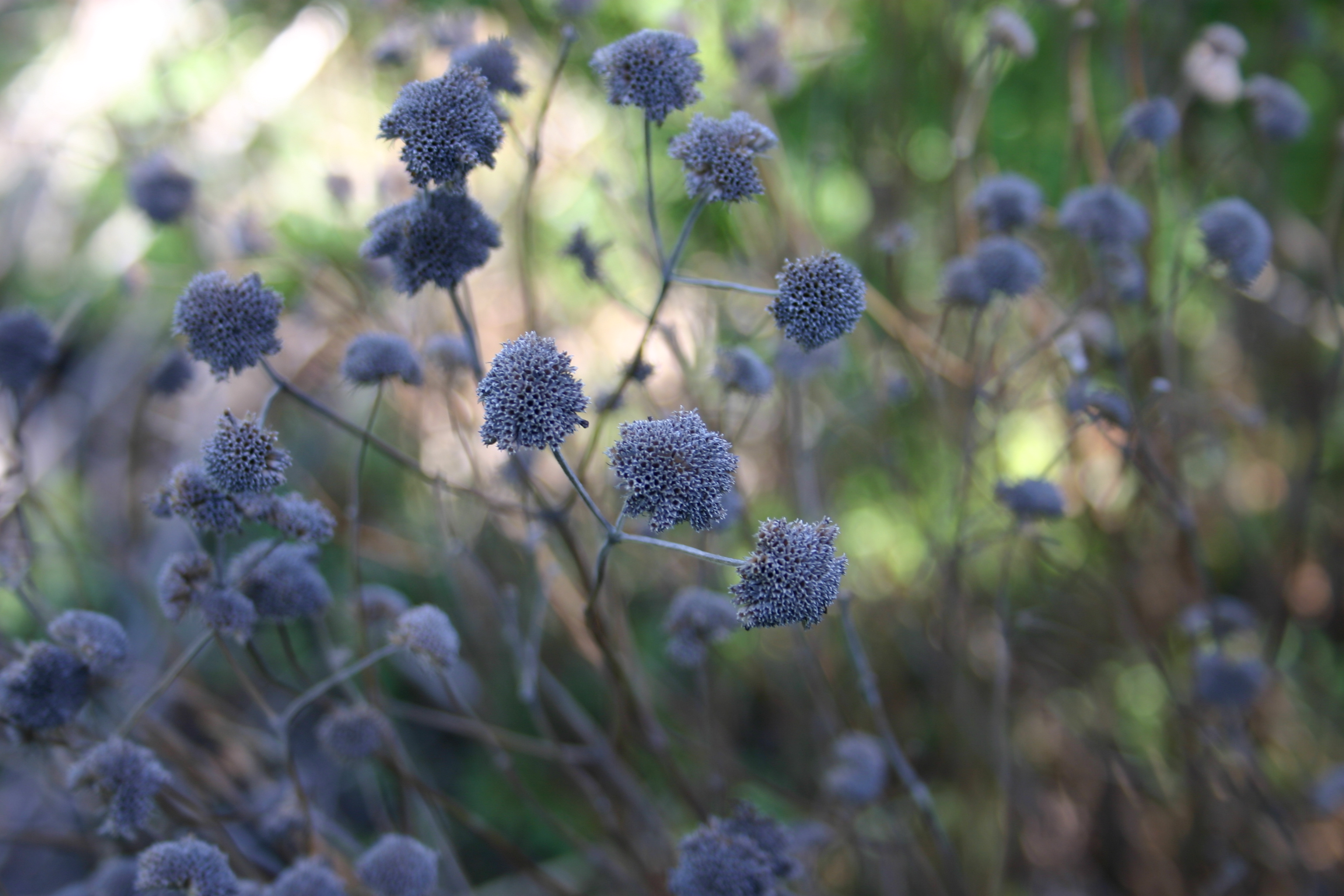 Spent seed heads of Pycnanthemum muticum, early spring